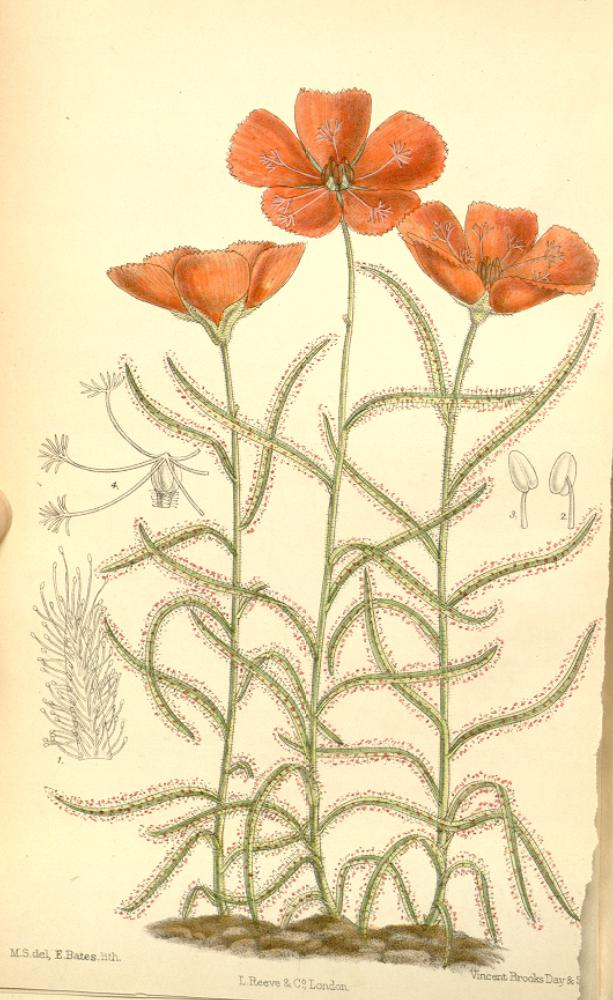 Illustration of Drosera cistiflora